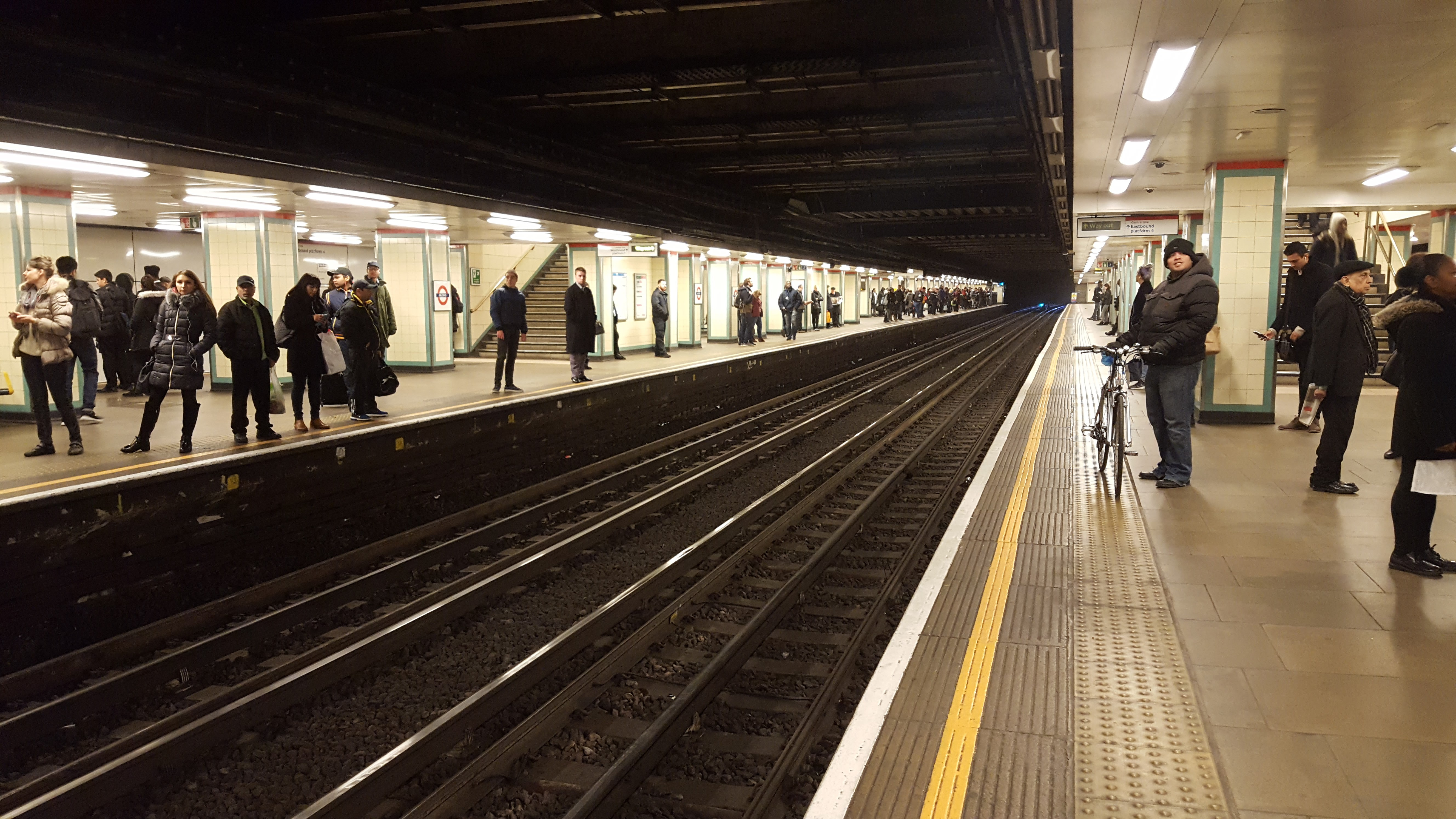 Image down the eastbound central line platform (platform 4). Image is 2 of 2.